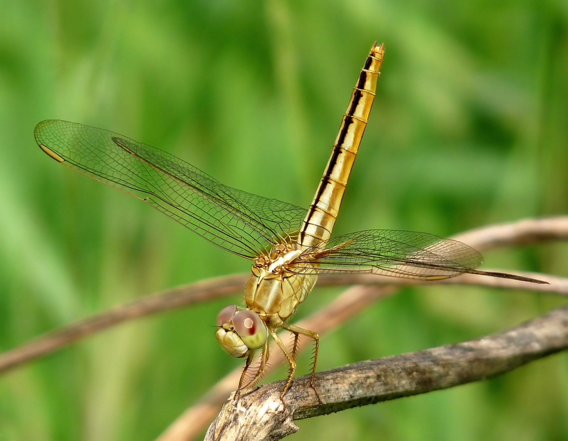 Crocothemis servilia female Crocothemis servilia, Ruddy Marsh Skimmer (Scarlet Skimmer), is a species of dragonfly of the family Libellulidae, native to East and Southeast Asia. The fully adult male is bright red and has a black stripe that runs the length of its abdomen. Sub adult males have a kind of orange colour. The abdomen stripe is highlighted well in this stage. The female is almost identical to the sub adult male. The only real way to tell them apart is from their anal appendages. Taken at Kadavoor, Kerala, India.